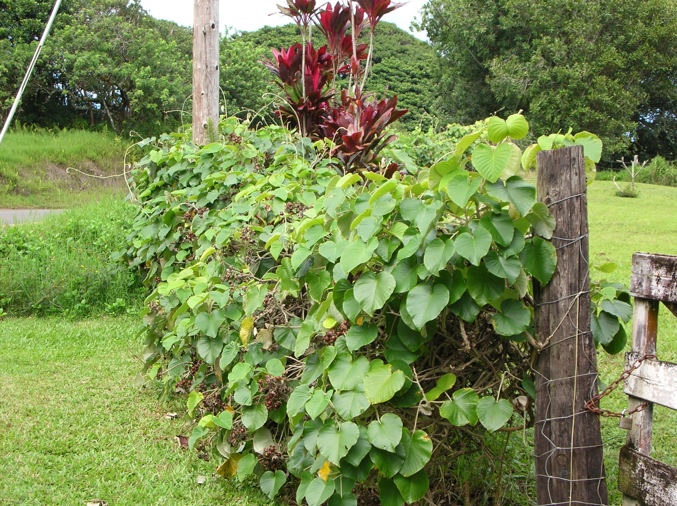 Argyreia nervosa (habit). Location: Maui, Hana Hwy Kailua